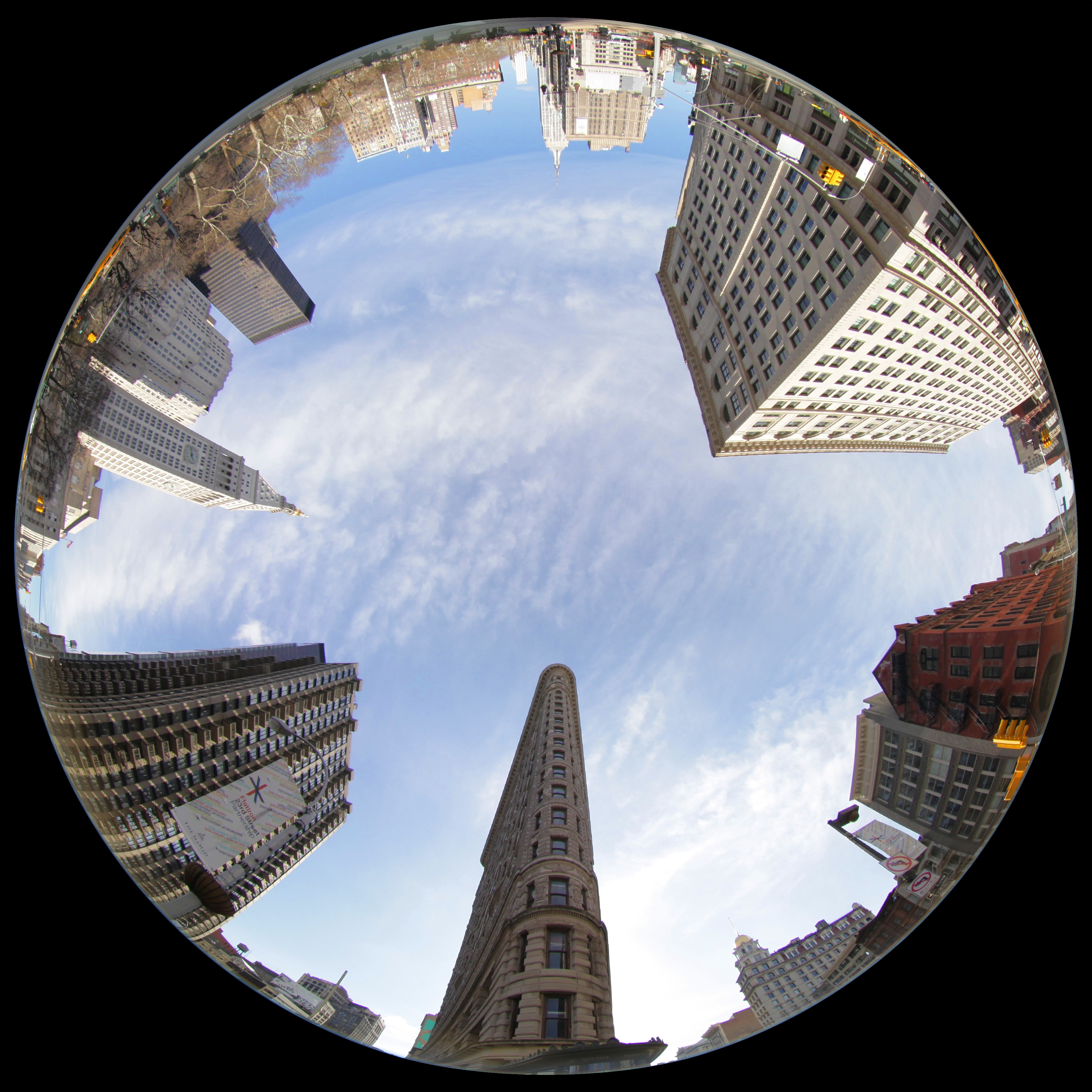 How a fish in a pail would see the Flatiron Building - without chromatic abberation.